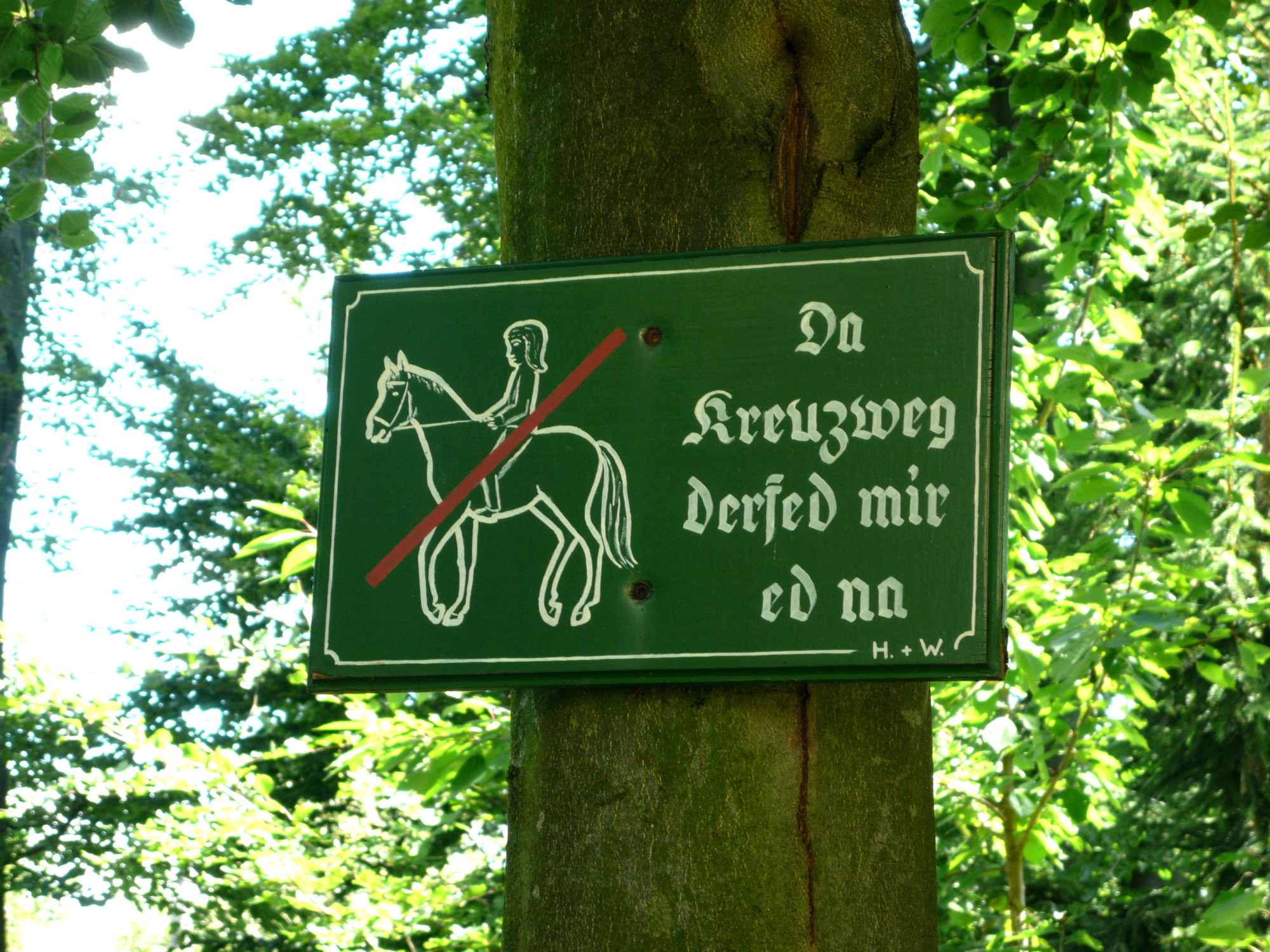 Sign in Swabian dialect (seen in Tuebingen county). Translation: We must not walk on the via crucis.